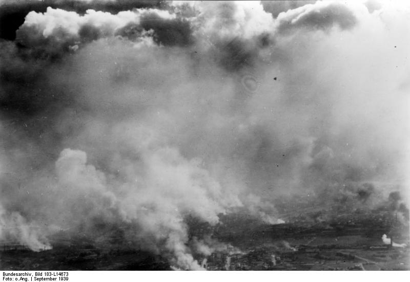 Warsaw during World War II